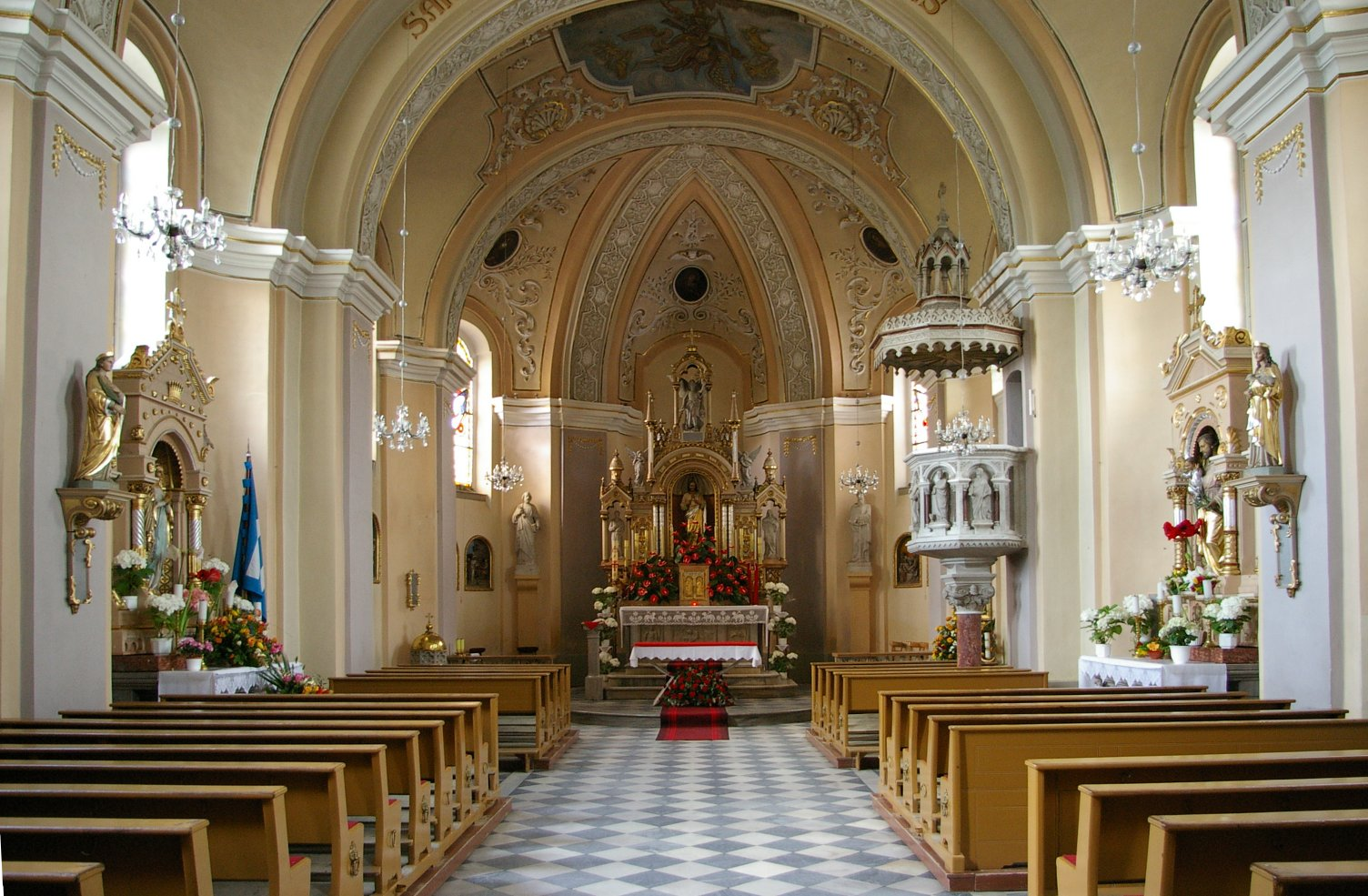 St. Michael Church in Kotórz Wielki, Opole Voivodship.